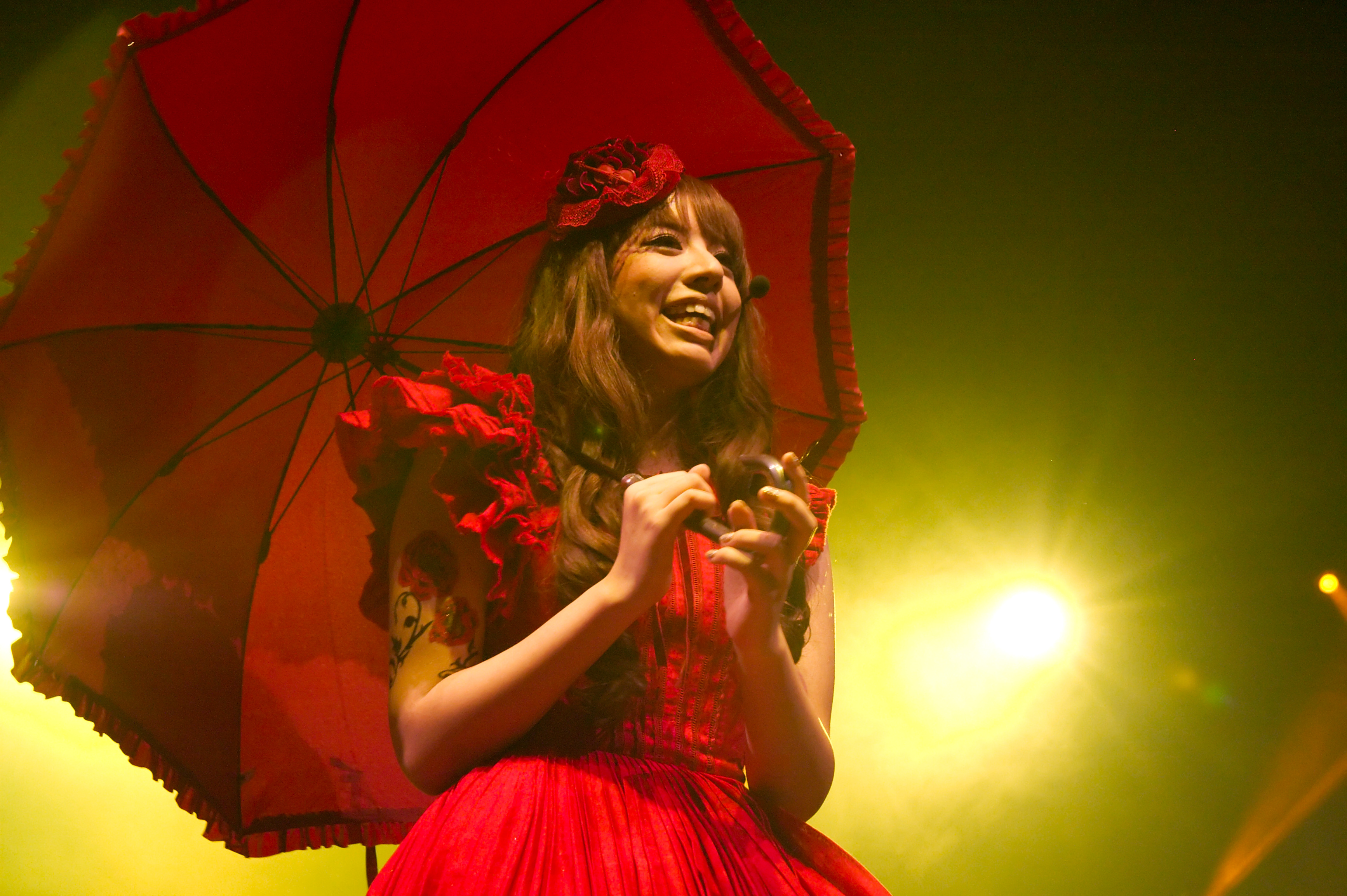 Kanon Wakeshima live at Japan Expo 2009 (Paris, France)